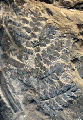 Cropped image of taxon in file name